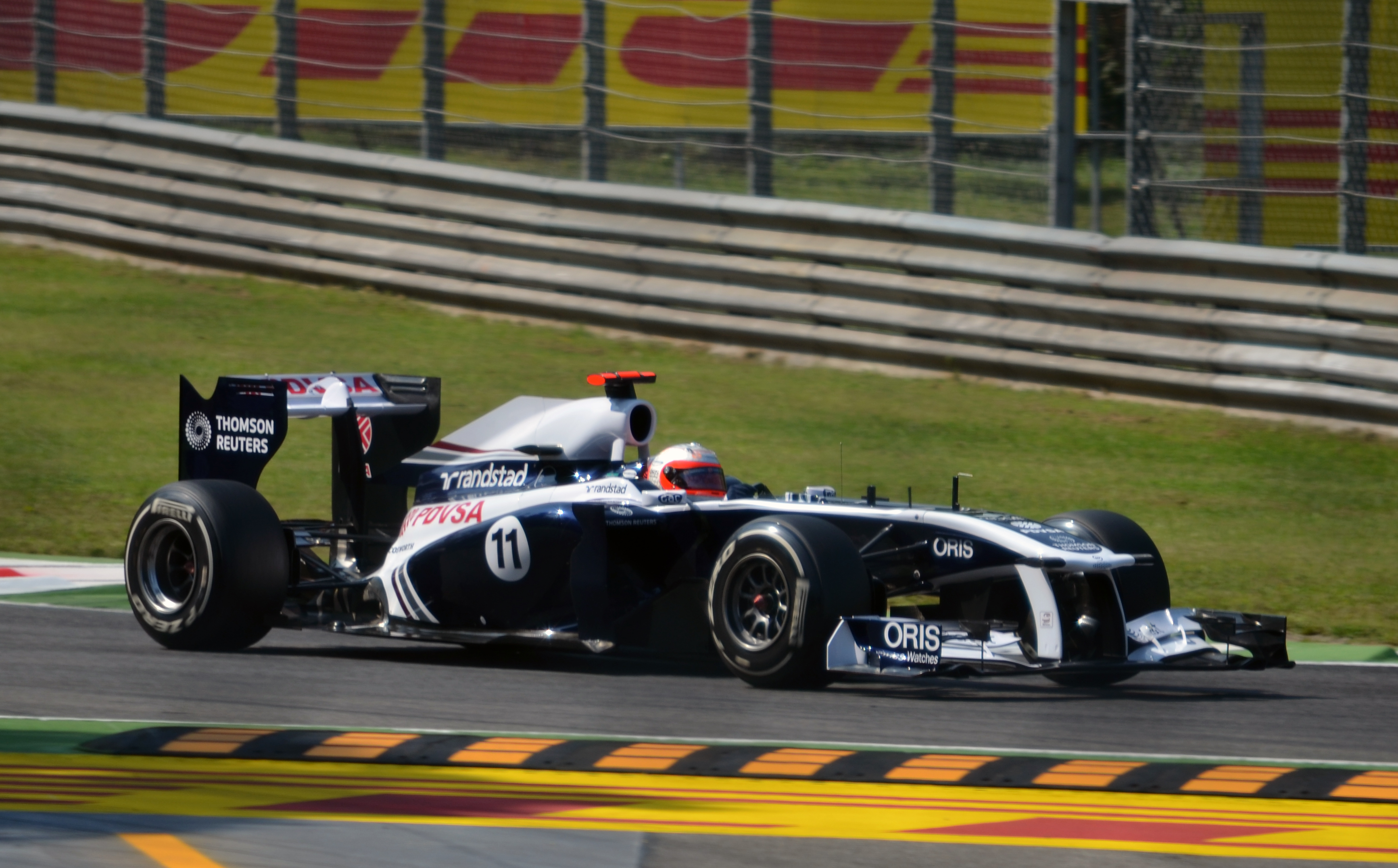 Rubens Barrichello in the Williams - Cosworth FW33 enters the Roggia chicane at Monza during second practice for the 2011 Italian Grand Prix.